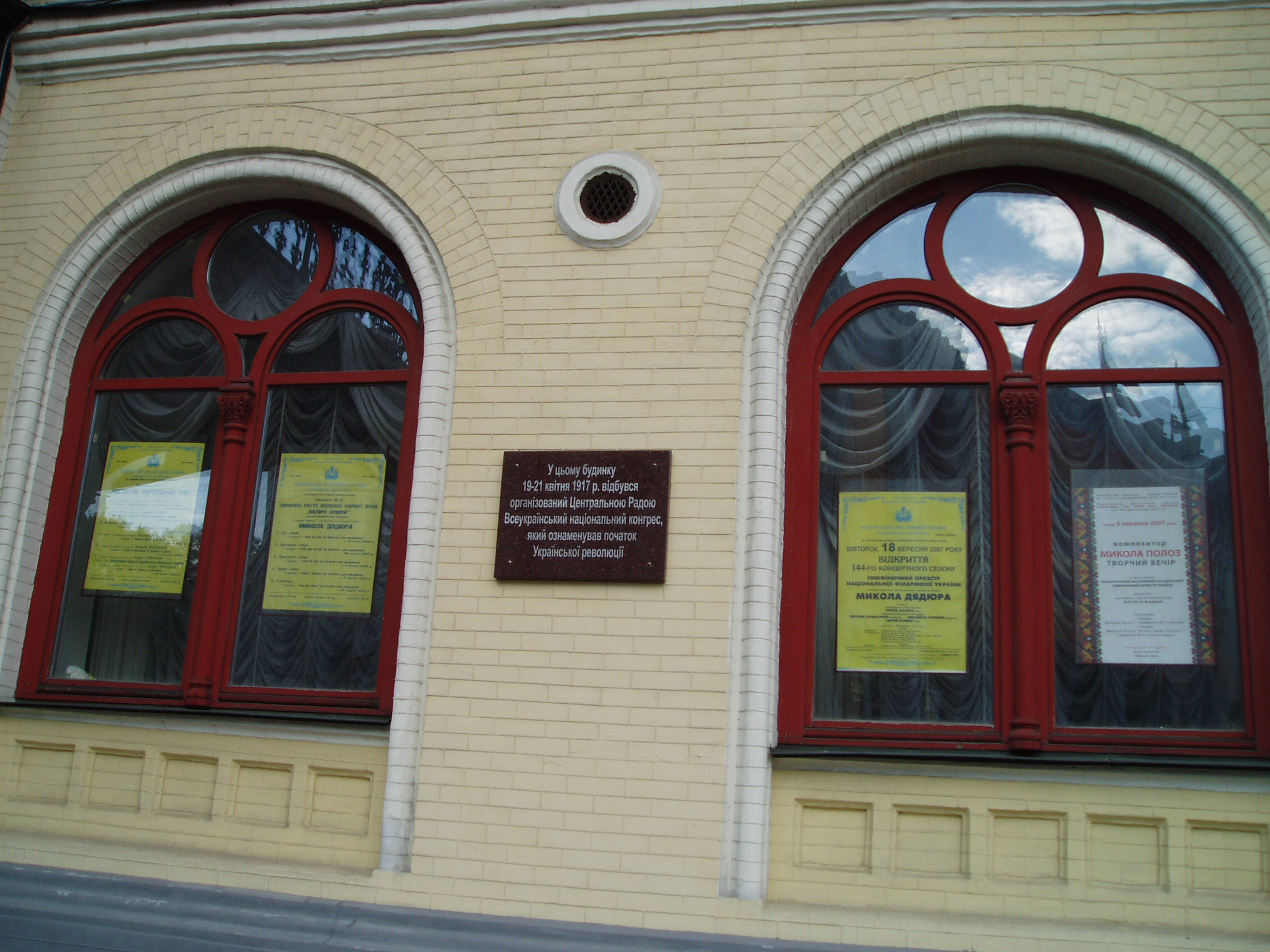 A photo of the memorial board, dedicated to the Ukrainian National Congress